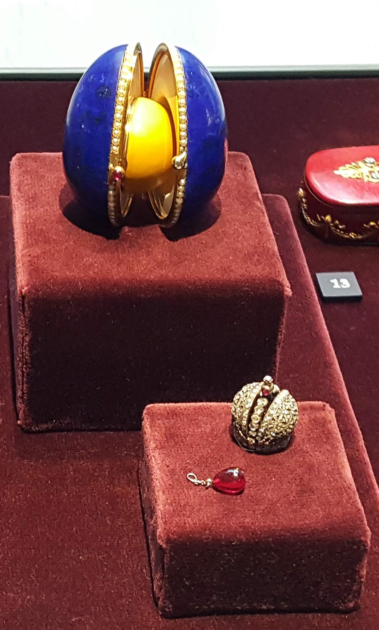 Lapis Lazuli (Hen) Fabergé Egg with surprise